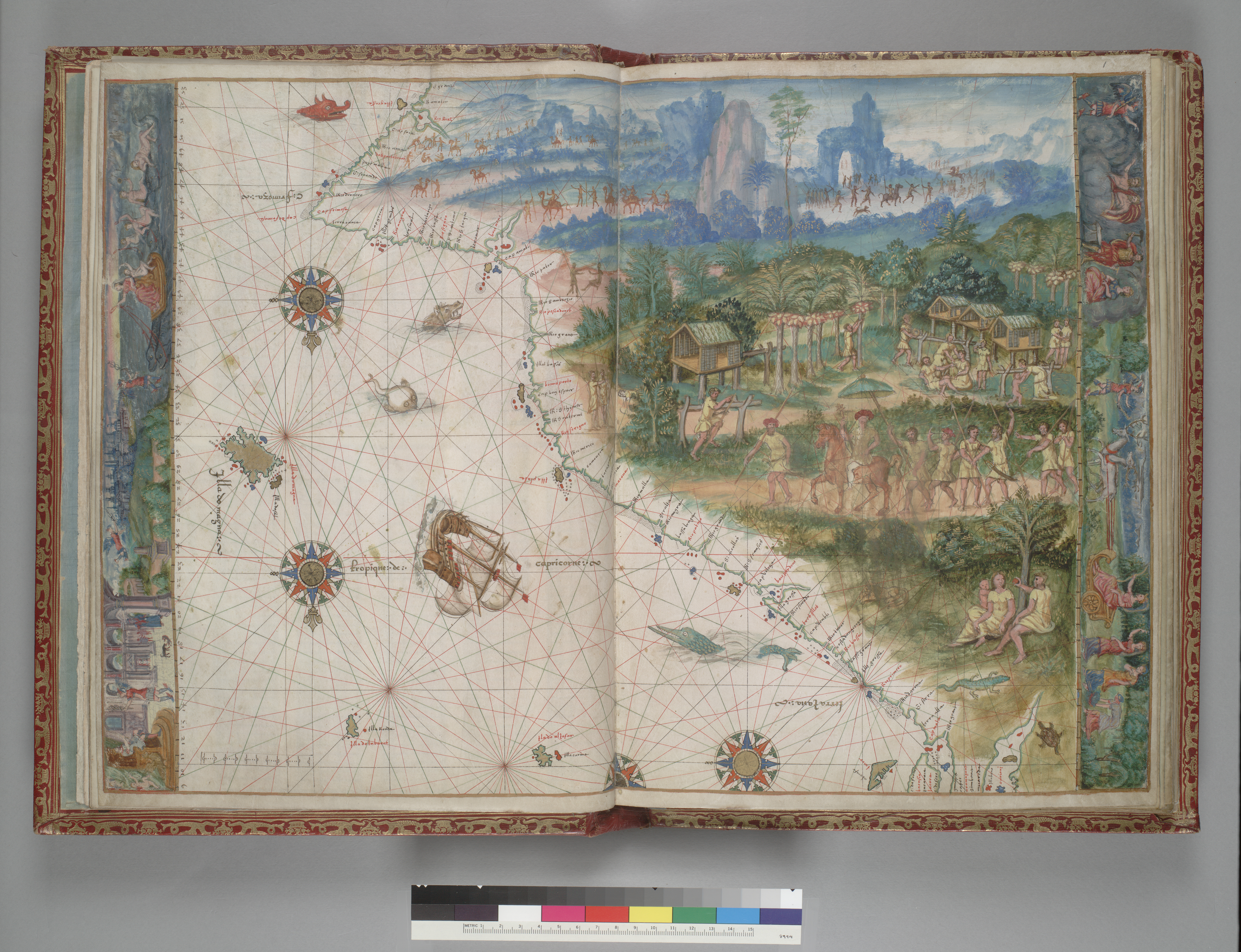 "Terra Java" (east coast of Australia?). North is directed to the bottom of the map.